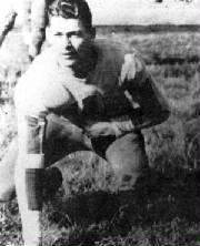 Bully Van de Graaff, football player at Alabama (1911-1915)